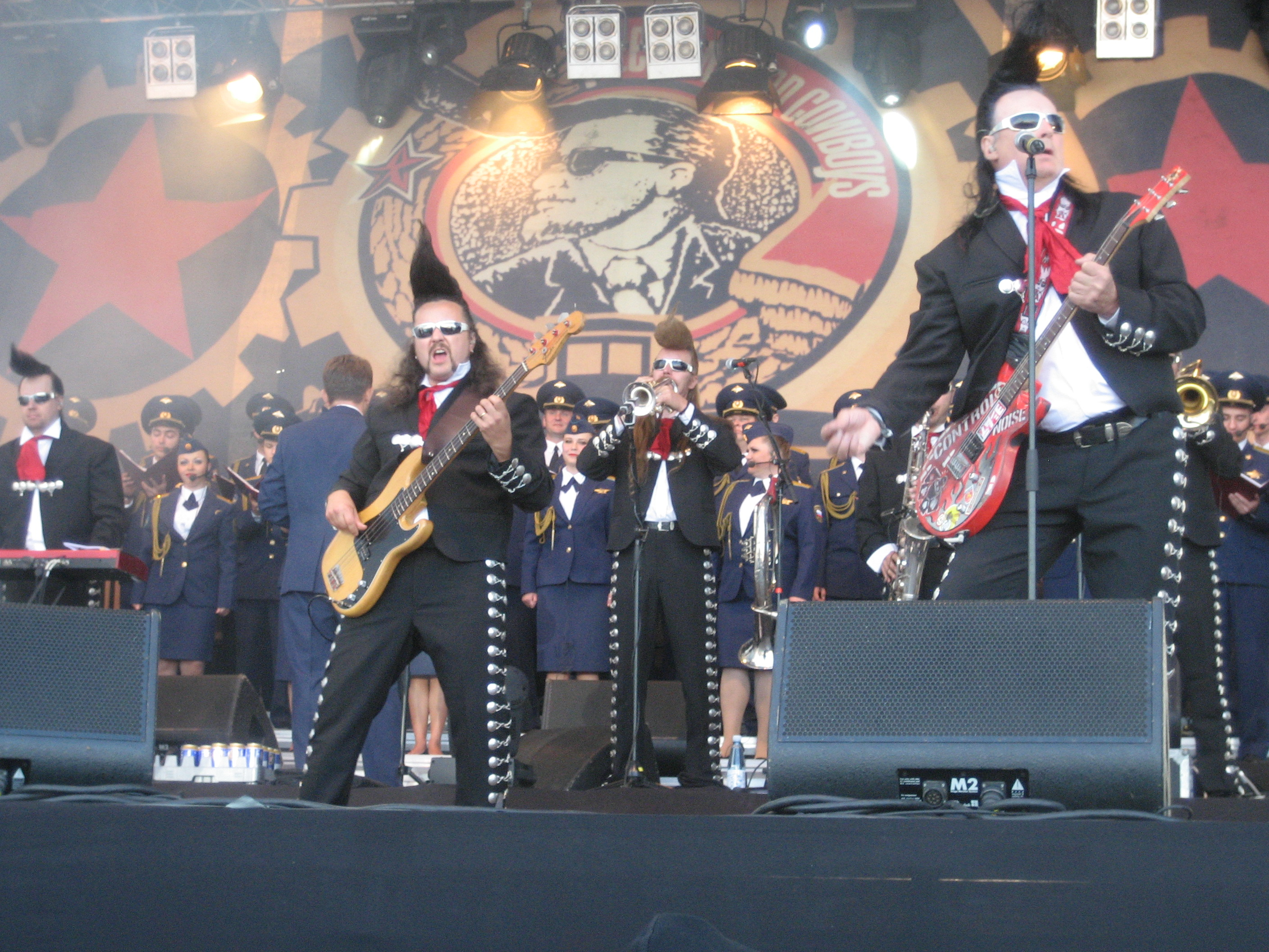 Leningrad Cowboys in Helsinki International Airshow 2009.